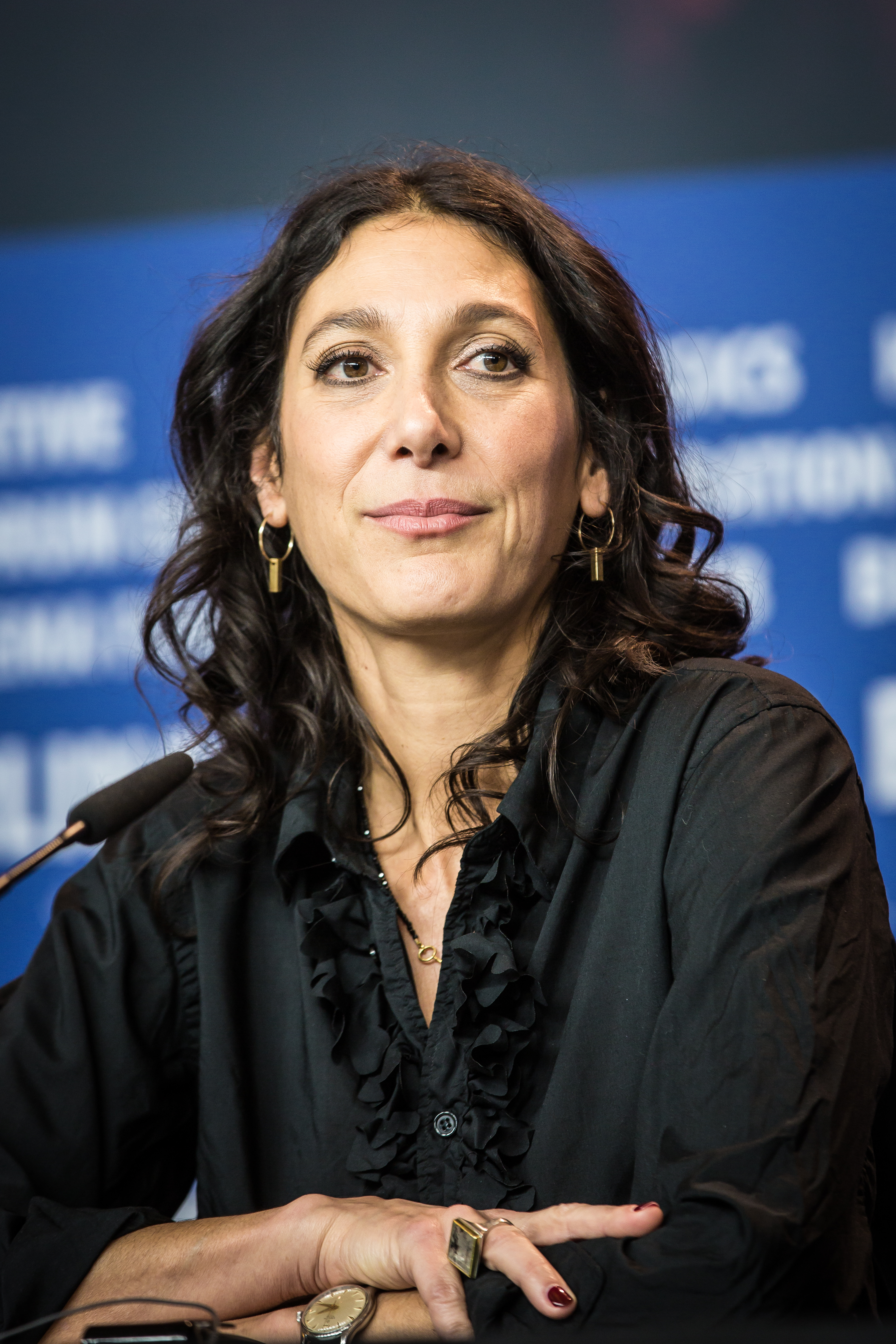 Movie director Emily Atef at the Berlinale 2018